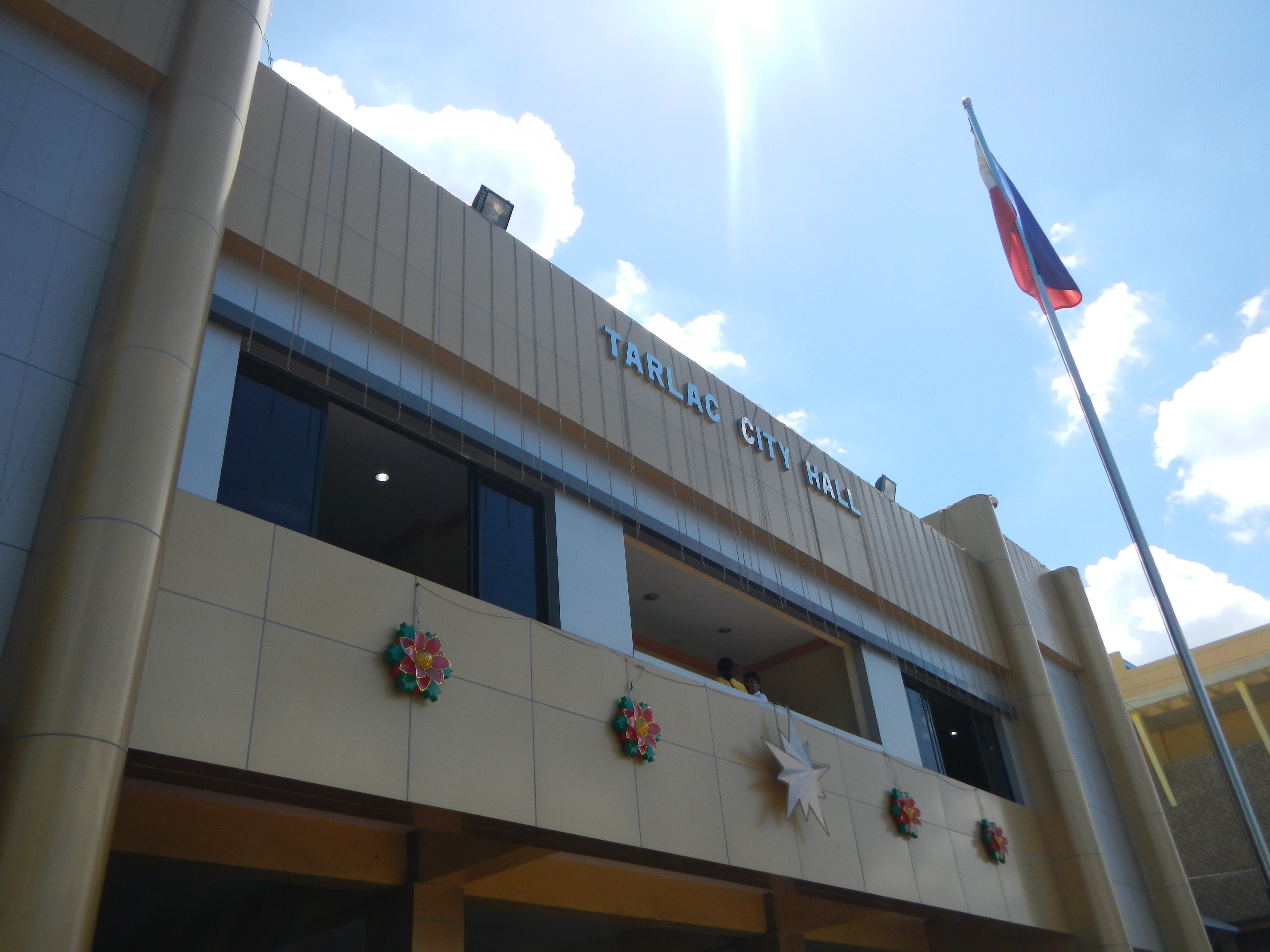 The façade of the Tarlac City Hall main building along Rizal Street, Tarlac City.